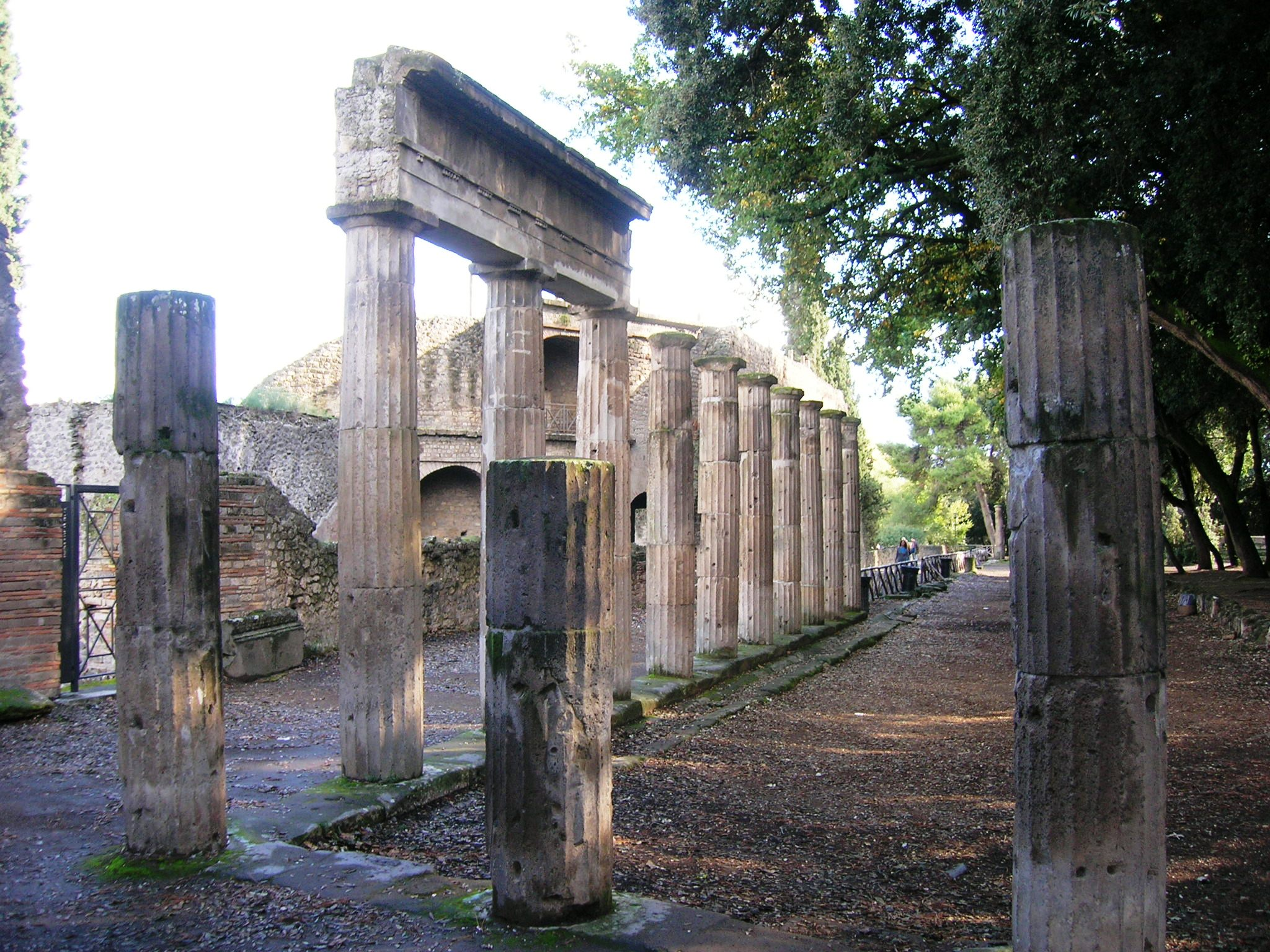 The so-called "Triangular forum" in Pompeii (Italy) in 2011.